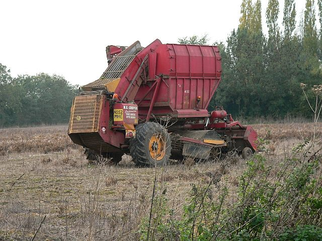 A Harvester Believed to be for sugar beet, the machine was standing idle in a field not far from Peaseland Green.